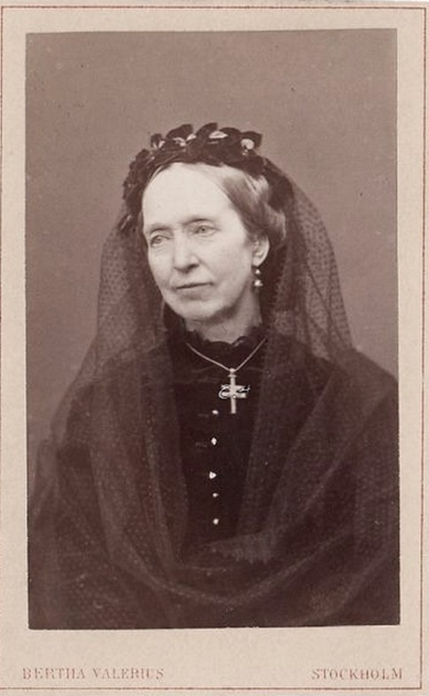 Queen Josephine of Sweden and Norway in her final years